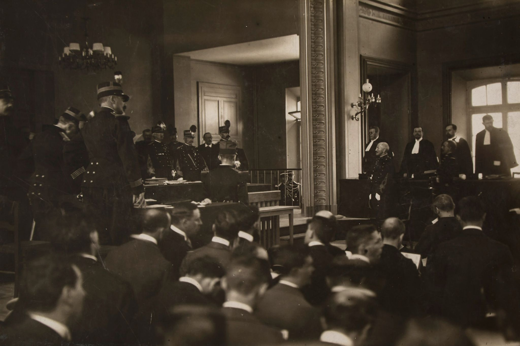 Wrongly described as The reading of the sentence—courtroom photograph of Alfred Dreyfus' rehabilitation before the French supreme court on July 12, 1906. Actually, it is a photograph of the beginning of the 1899 trial of Rennes. Contemporary gelatin silver print; signed and titled on recto. Original size 18.6 × 27.2cm